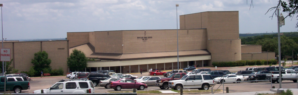 The Fine Arts Facility of Westlake High School, the first building seen when arriving at the school. Photo taken by Reid Sullivan c.2003.